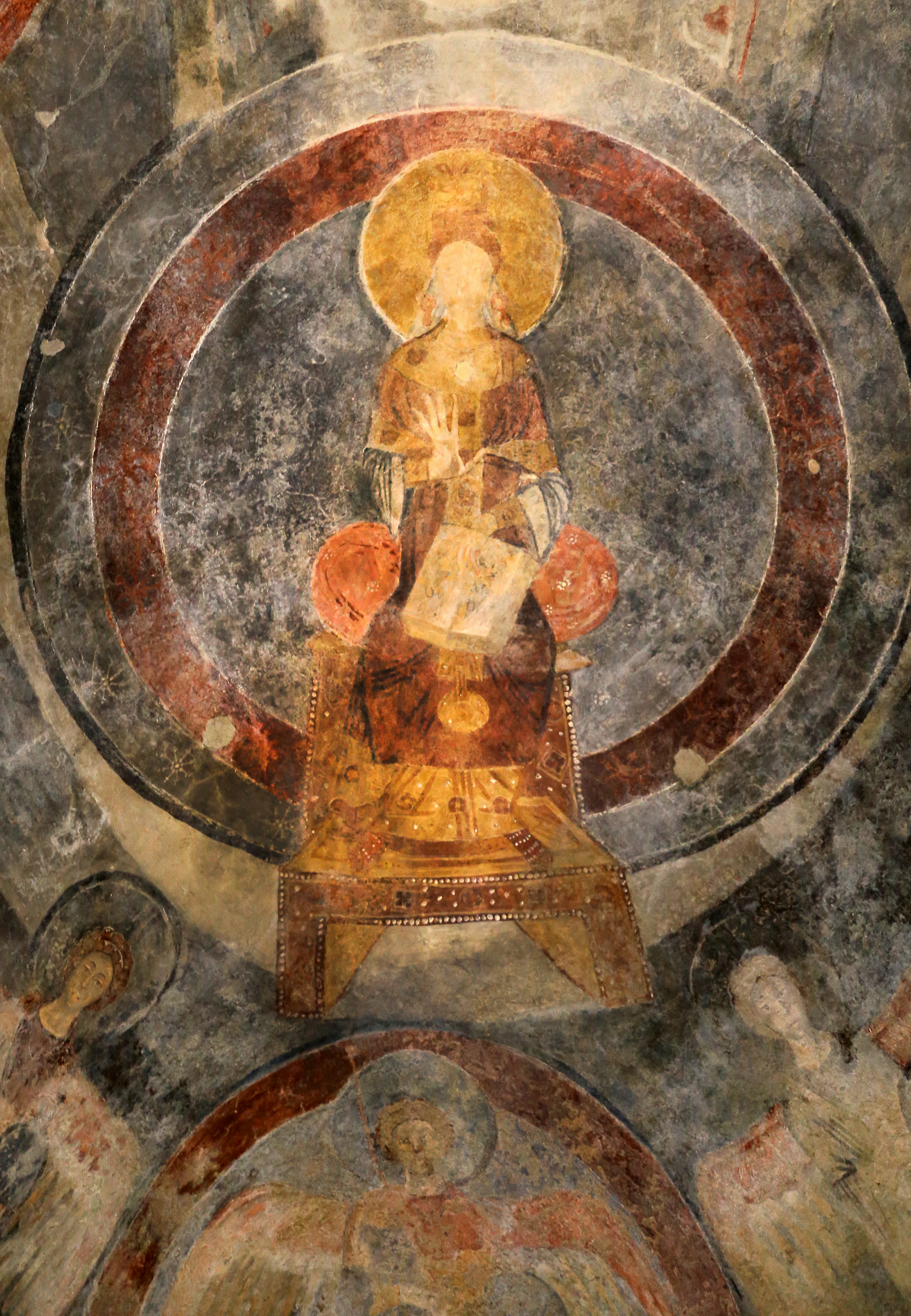 Epifanio Crypt